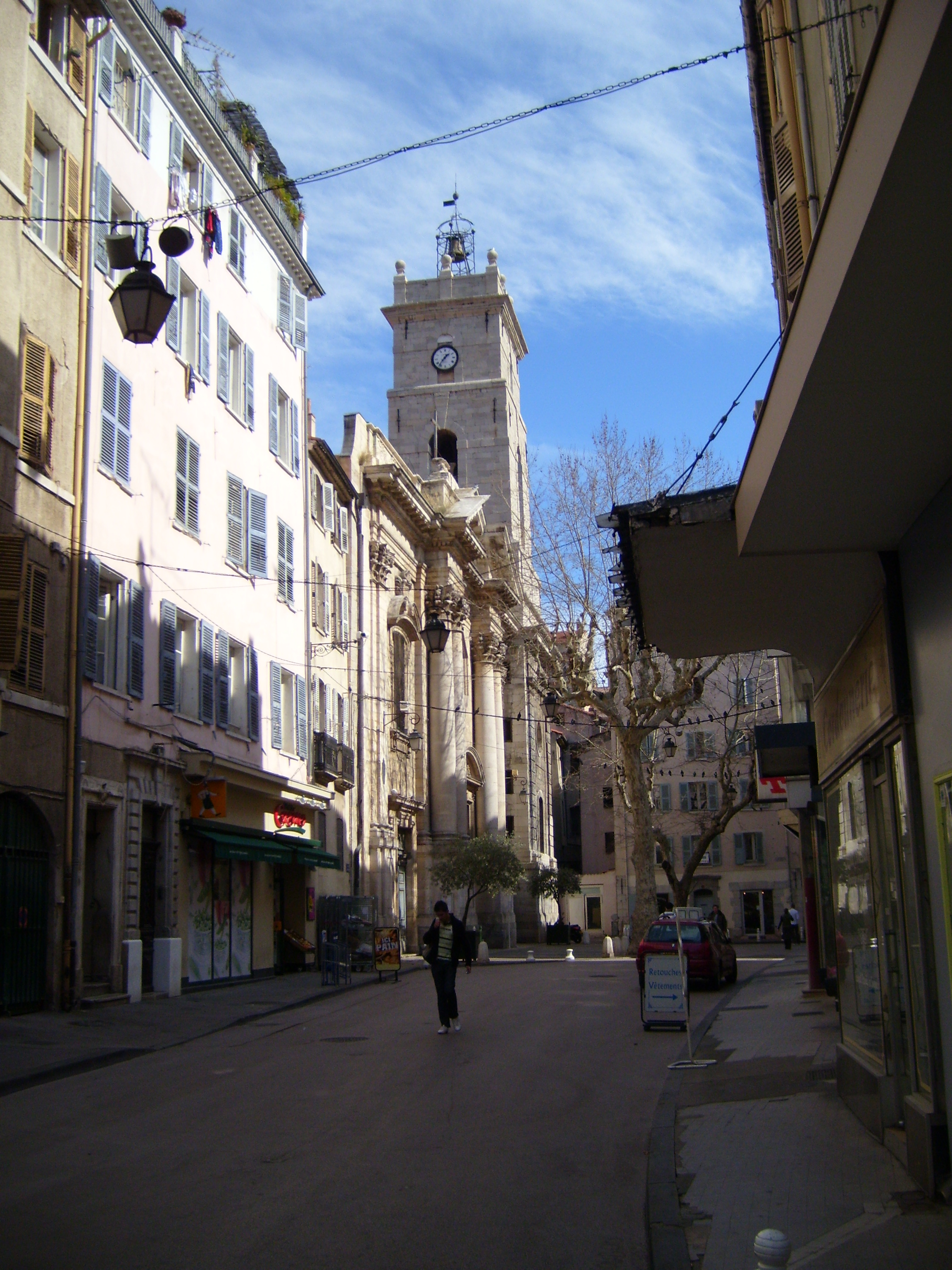 Toulon Cathedral